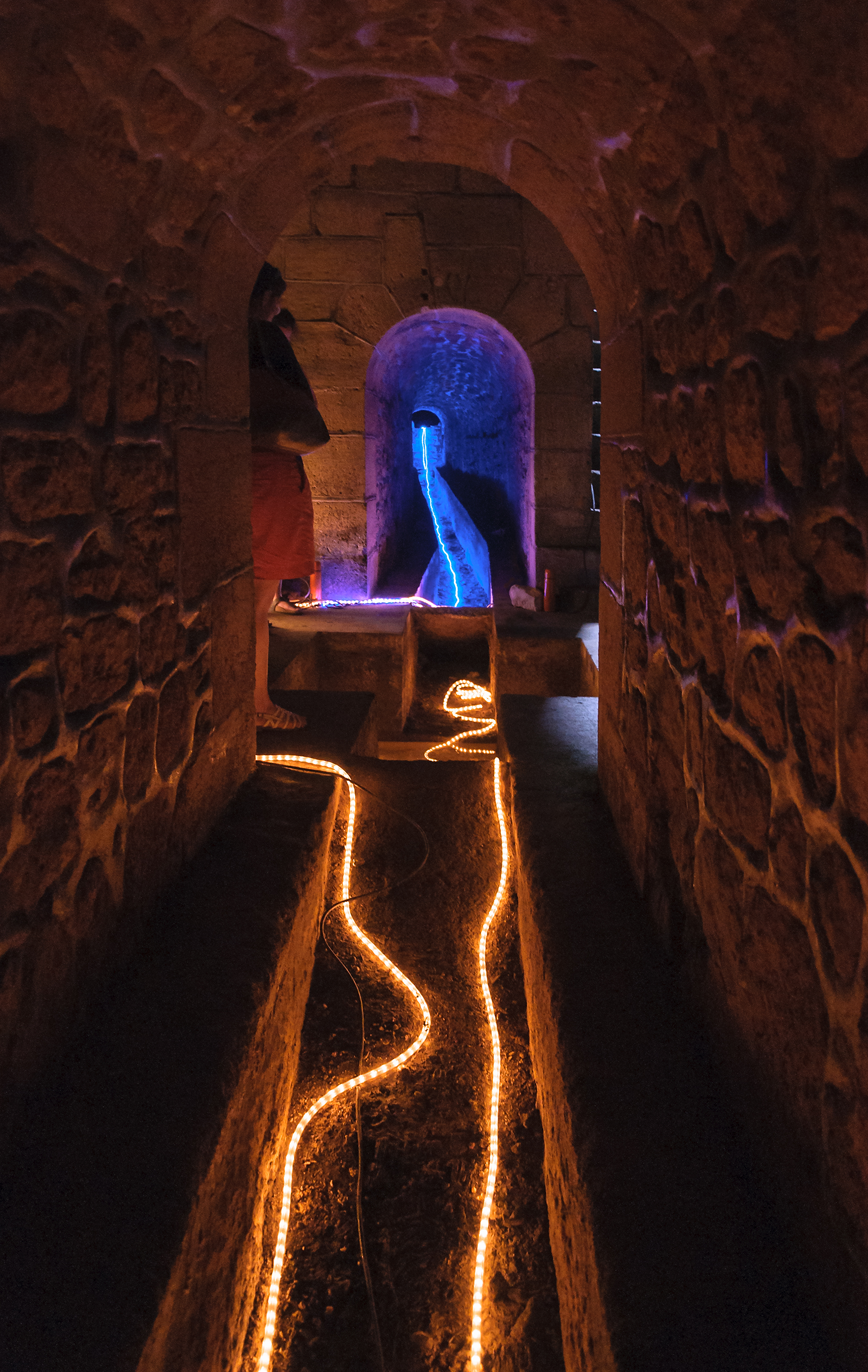 Inside the regard n. 25, so called “regard de Saux” of the Medici aqueduct, exceptionally opened to public for the 400th anniversary of the aqueduct (Paris 14th arrondissement, France). The lights represent the flow of water. .